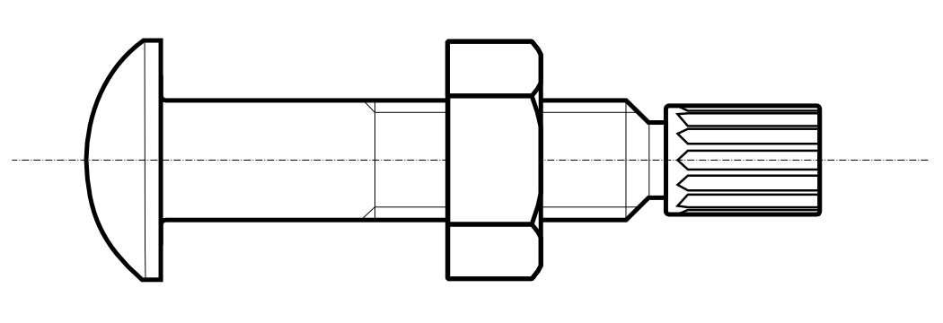 Screw (bolt) 23A-n